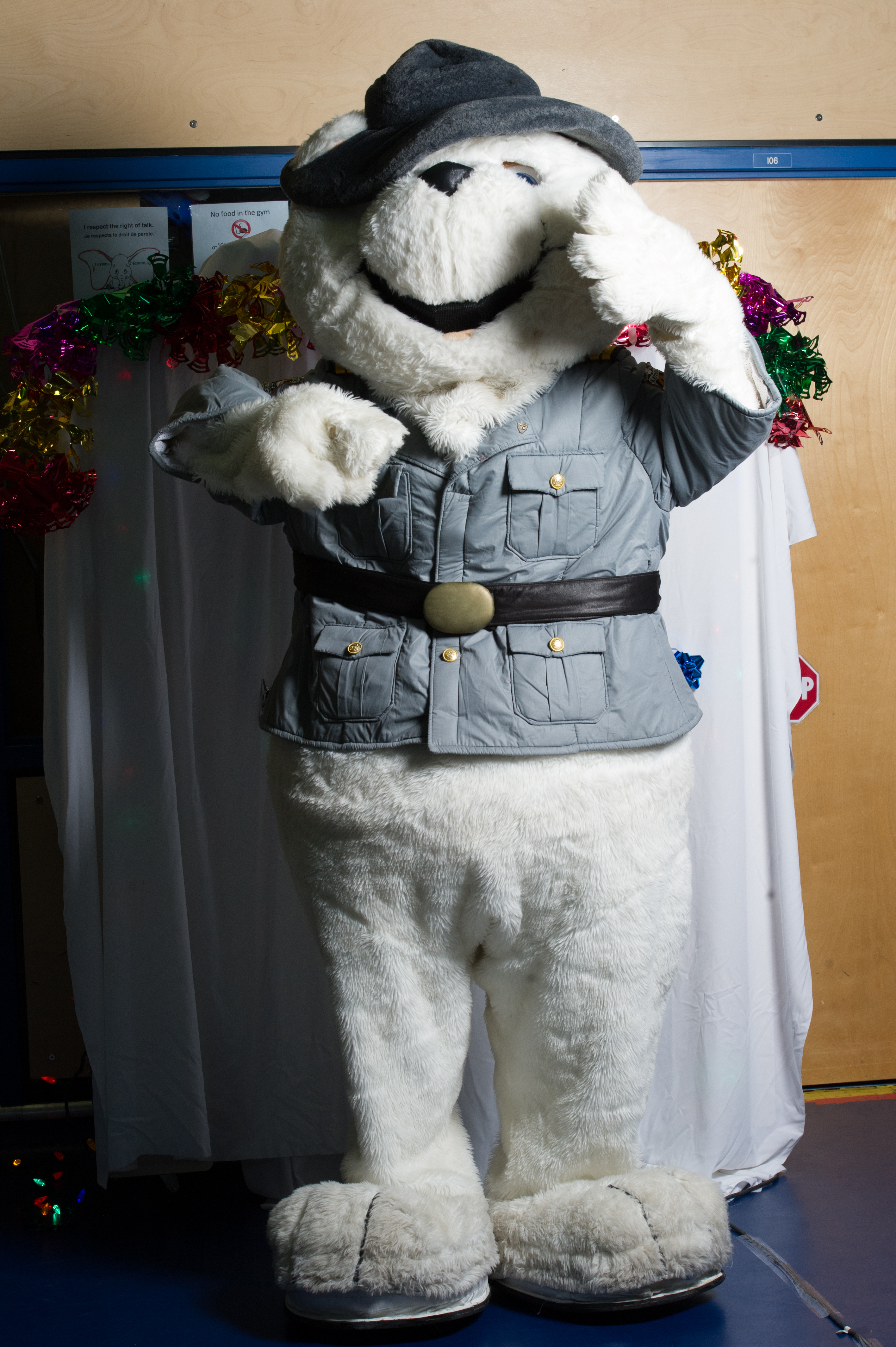 Nanuk during the KRG Kids Christmas Party (KKCP) in 2017.